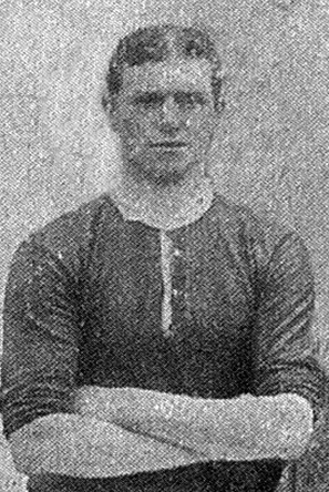 Robert Haworth - From a Wakefields postcard produced in 1906.